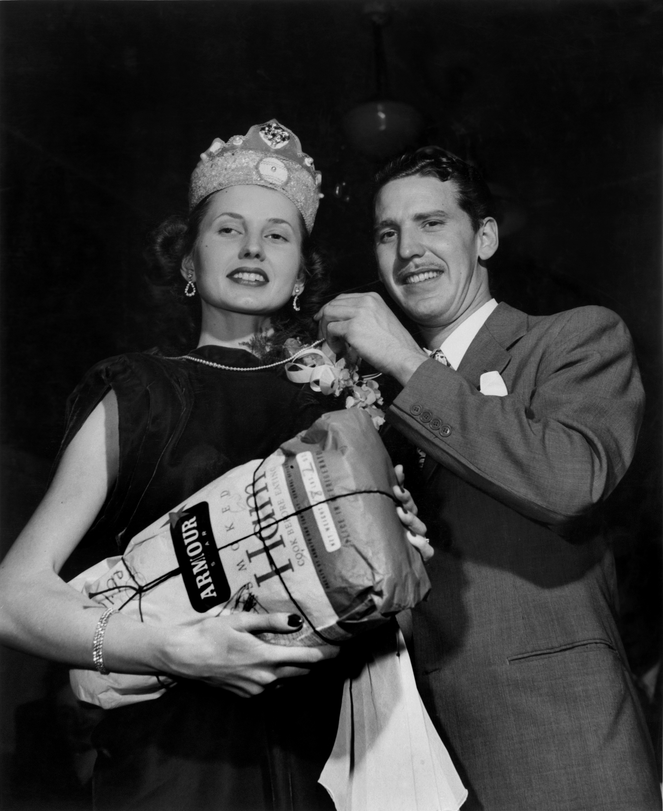 Miss Oak Ridge Oak Ridge Tennessee 12-26-1947.